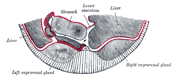 Section through same region as in Fig. 1103, at end of third month. (Toldt.)